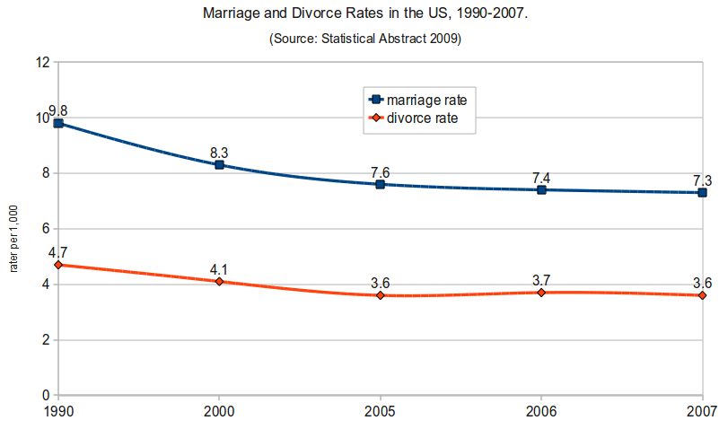 Marriage and divorce rates in the US, 1990-2007. Source: Statistical Abstract, 2009.